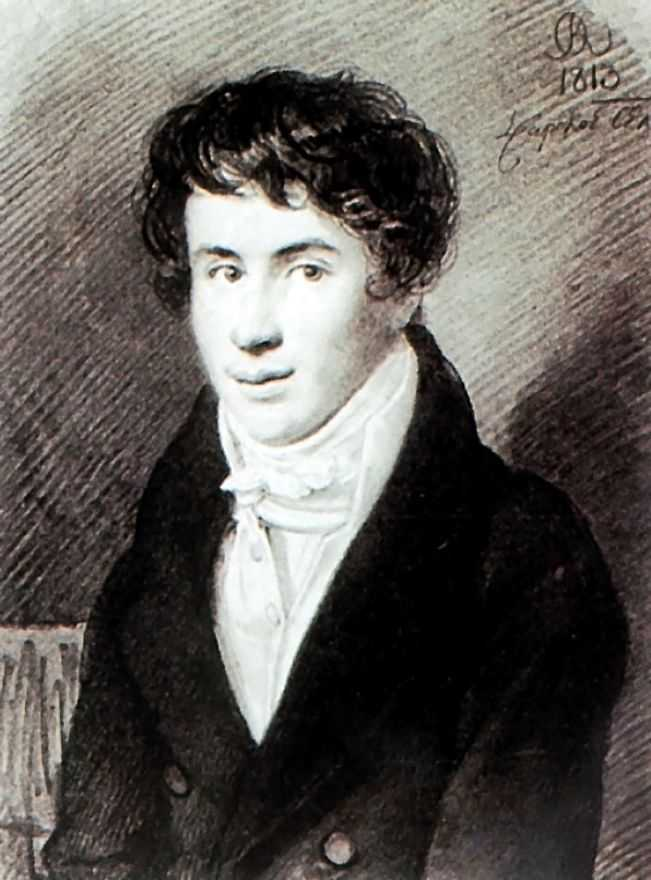 Orest Adamovich Kiprenskii (1778-1836) Portrait of Nikita Mikhailovich Muraviev, 1813. Italian pencil, paper The State Literature Museum, Moscow, Russia